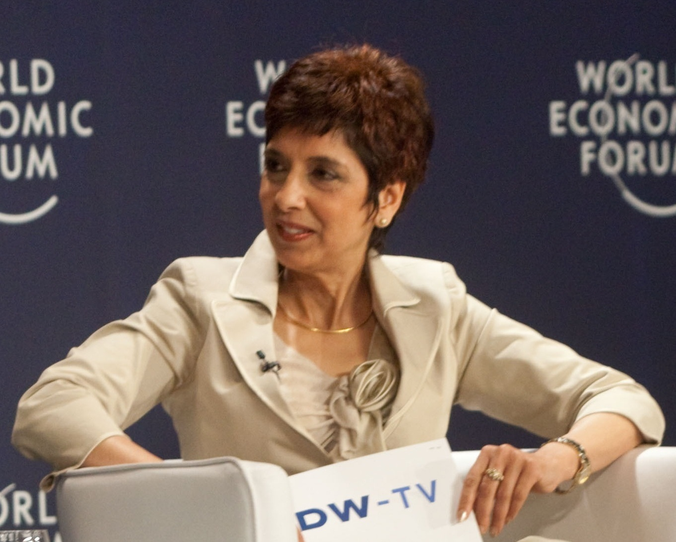 RIO DE JANEIRO/BRAZIL, 29APR11 - Amrita Cheema, Anchor, Deutsche Welle TV, Germany captured during the World Economic Forum on Latin America in Rio de Janeiro, Brazil, April 29, 2011. Copyright World Economic Forum /Photo by Alexandre Campbell